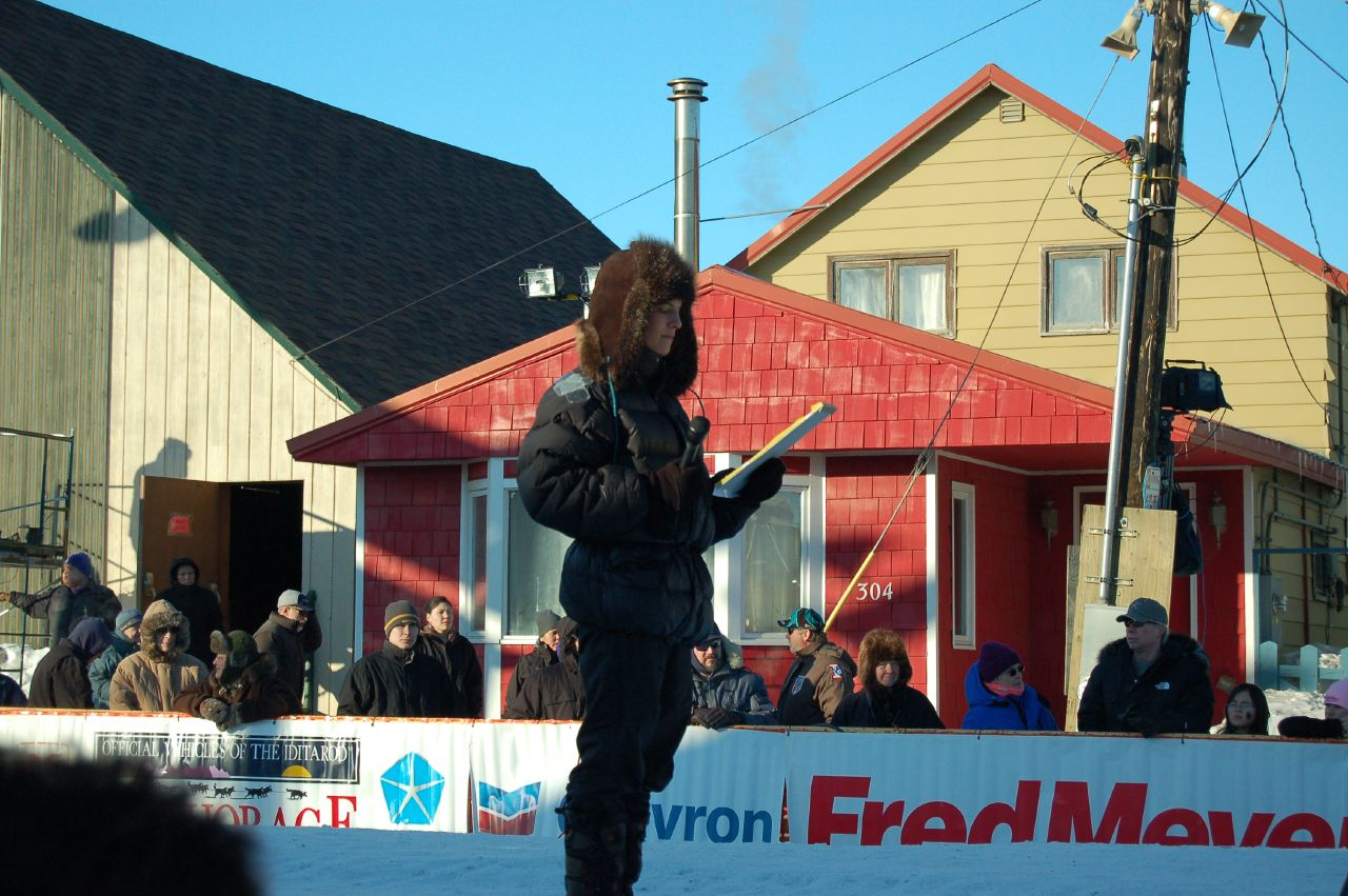 Reporter at the Nome finish line of the 2007 Iditarod Trail Sled Dog Race. Reporter identified by Flickr commenter lancehankins as "Megan Baldino, Channel 2 News (KTUU-TV, Anchorage)".